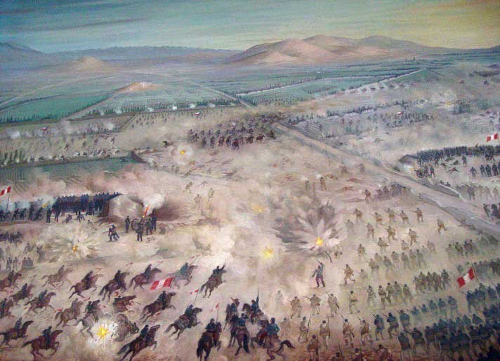 Caceres charge en the battle of lima in the pacific war.